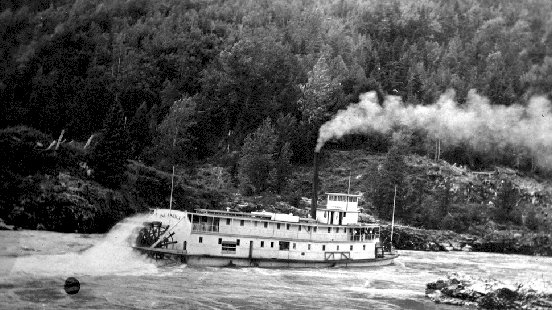 Dated 1911. Therefore public domain in Canada. Likely first published prior 1923, therefore likely public domain in the U.S. also. Deet 03:07, 10 November 2006 (UTC) From B.C. Archives: Source: B.C. Archives. Call Number: D-09561 Title: SS INLANDER ON THE SKEENA RIVER AT KITSELAS CANYON Date: 1911 Photographer: Undetermined Note to Wikipedians. I'm not sure it really is the ss Inlander as labelled by B.C. Archives, unless there was more than one. Here is a link to another ss Inlander that looks a lot different. Deet 03:29, 10 November 2006 (UTC) This photo is of the Inlander on the Skeena River, the other (linked above) is a coastal steamship, Islander.CindyBo 09:15, 25 April 2007 (UTC)